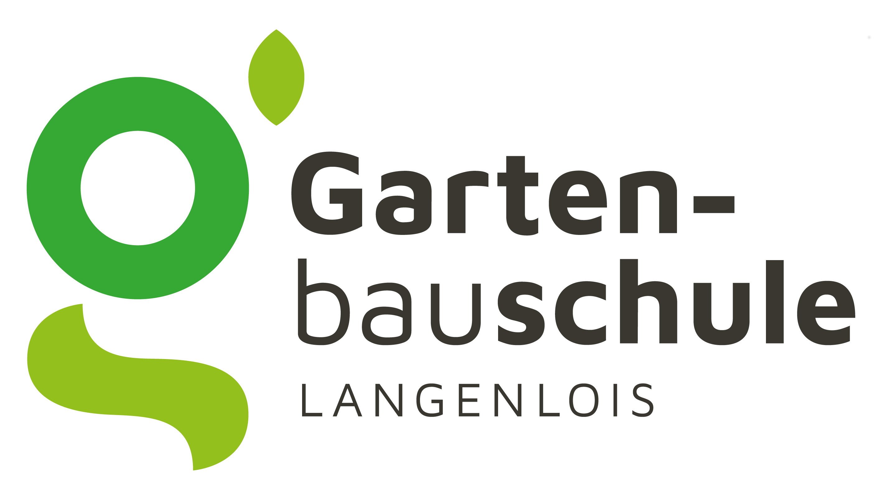 Logo Gartenbauschule Langenlois